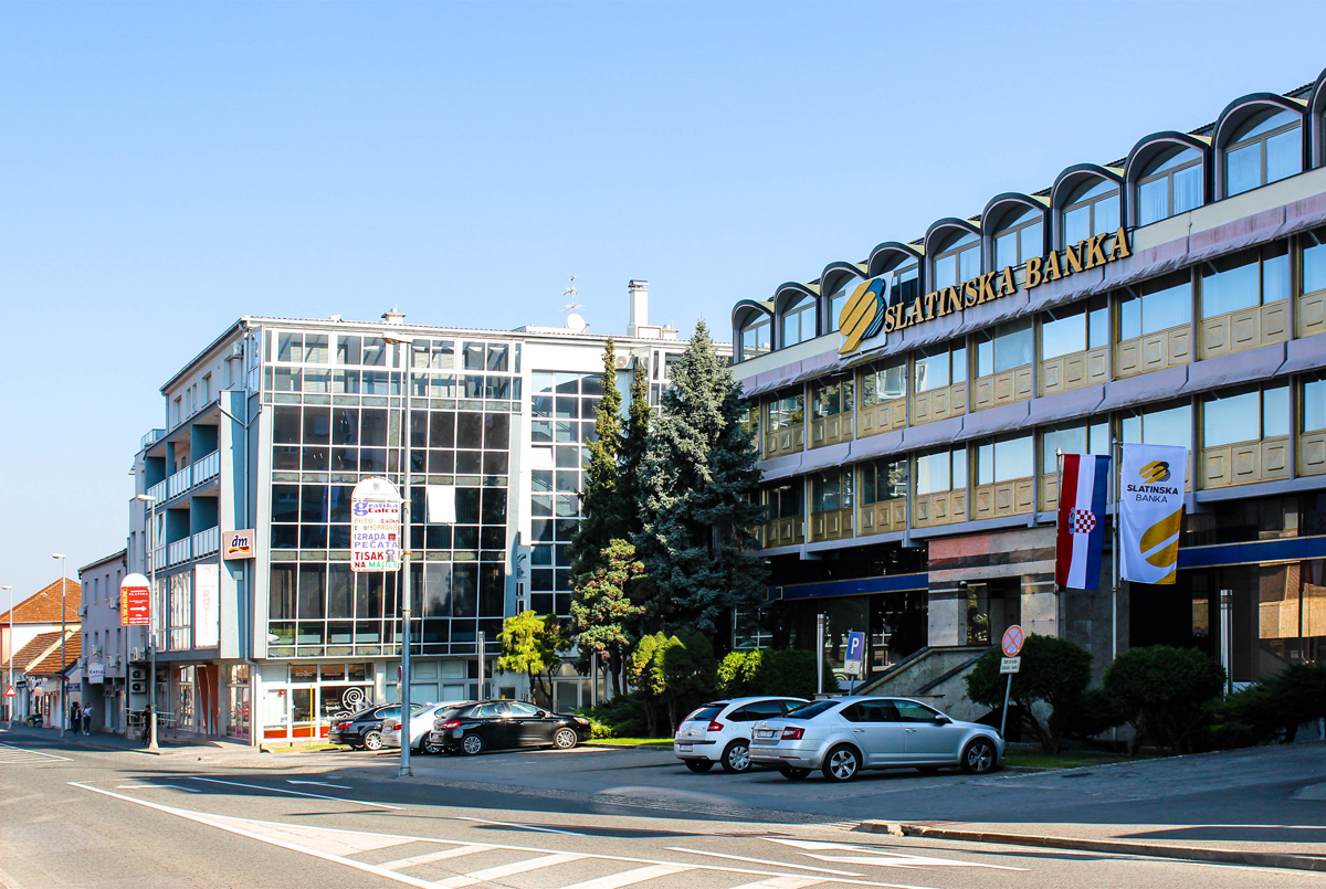 City center